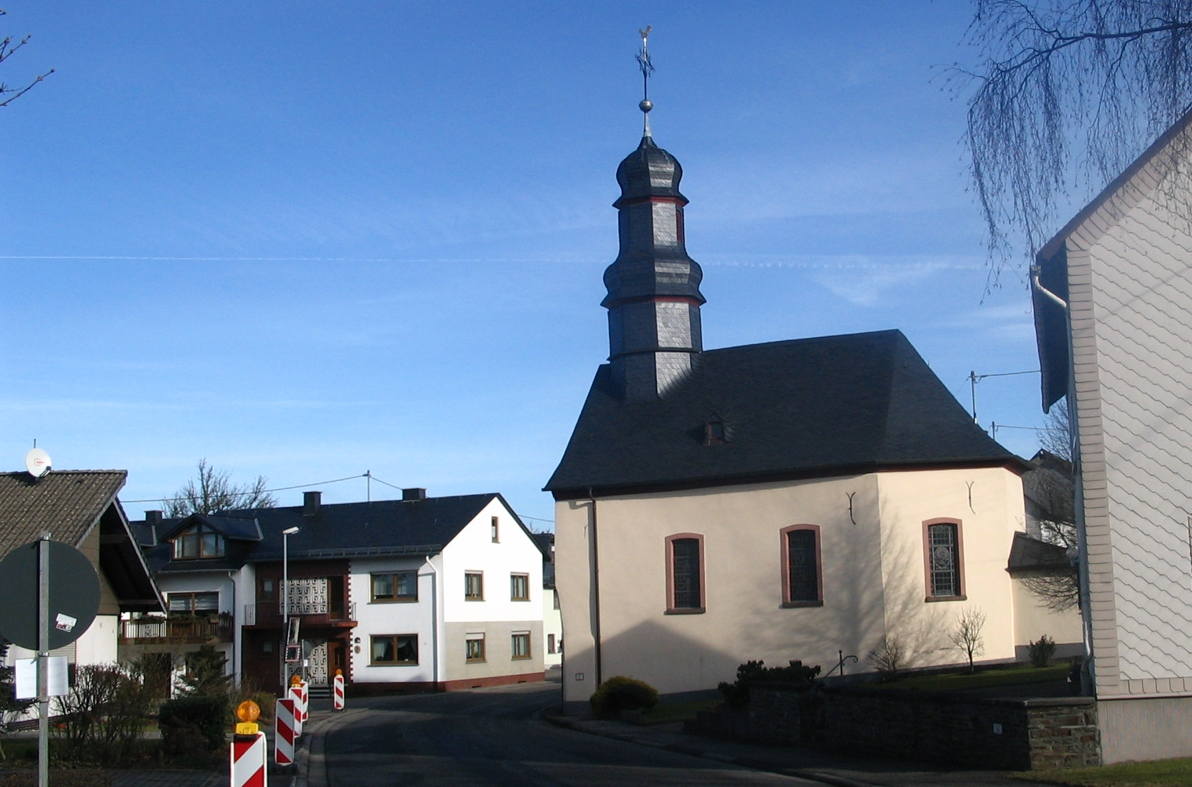 Church in Ebschied in the Hunsrueck landscape, Germany